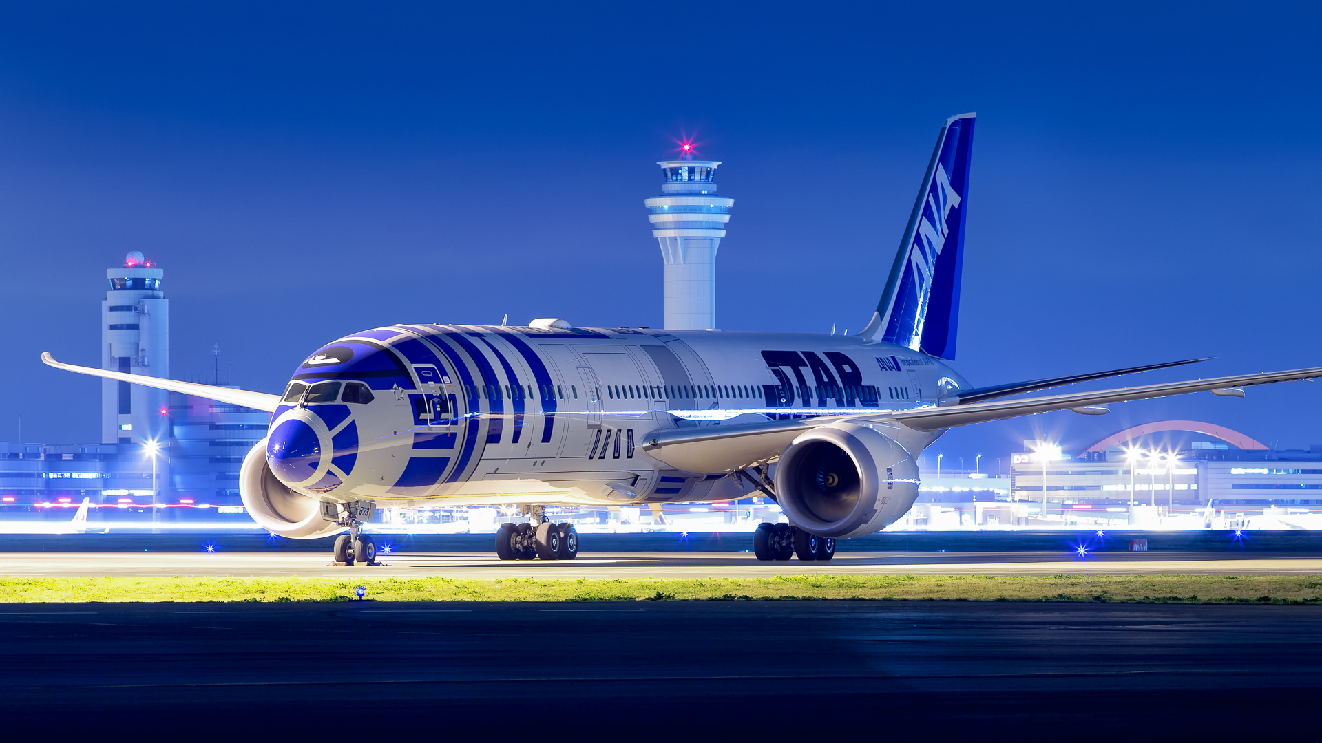 ANA Boeing 787-9 DreamLiner R2D2 Star Wars Livery JA873A - Tokyo Haneda Intl Airport (HND - RJTT)